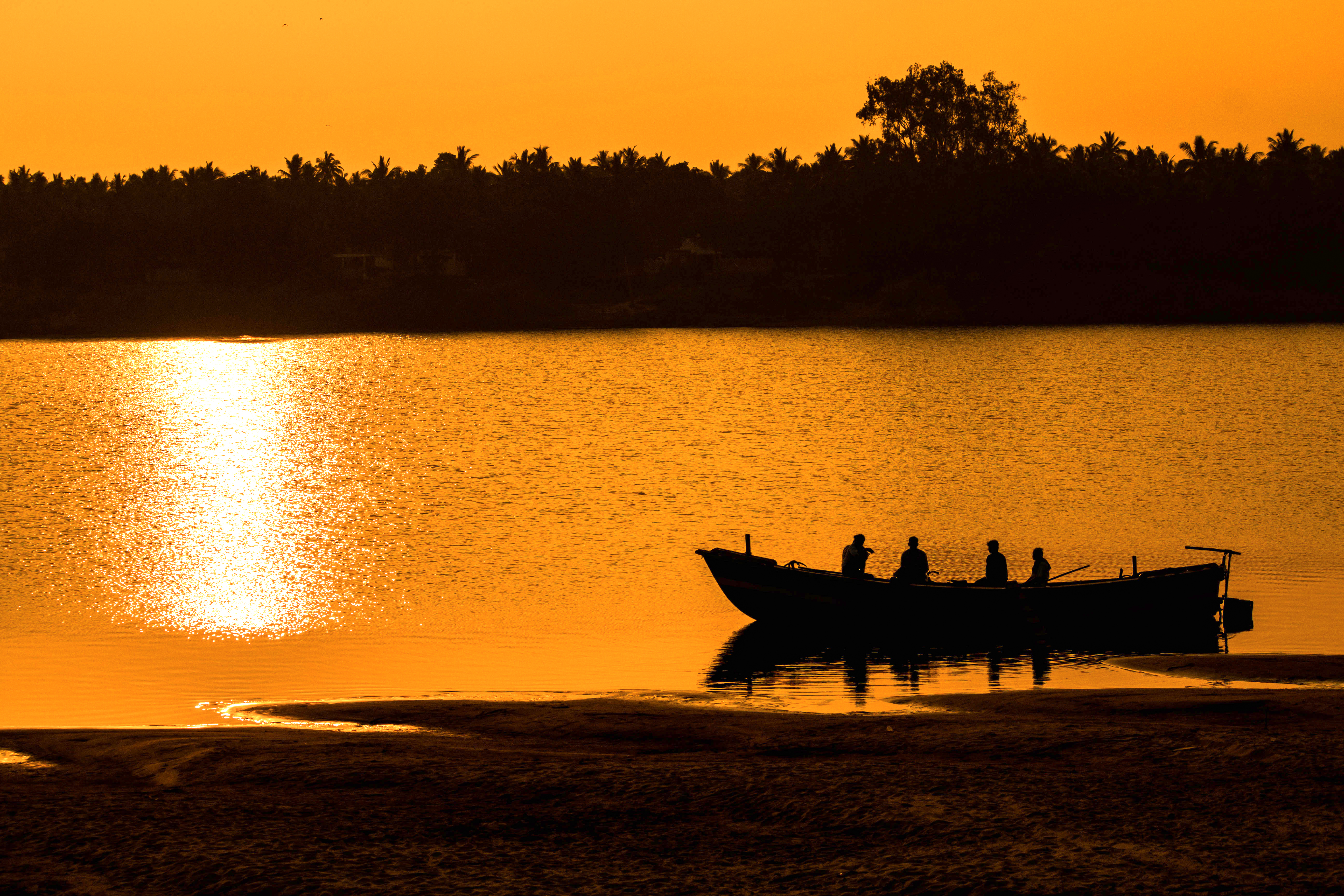 Sunset near Koderu in West Godavari